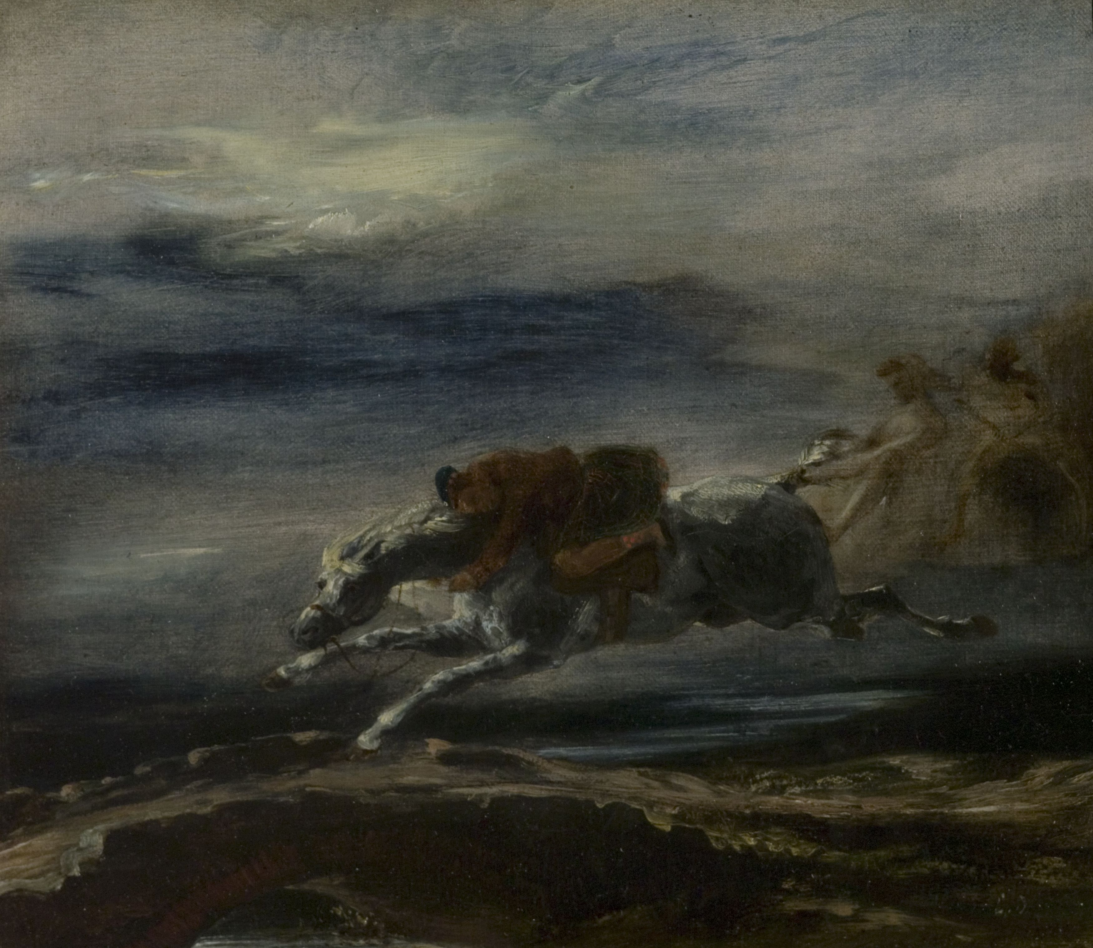 Painting by Eugène Delacroix, 1825, Nottingham City Museums and Galleries